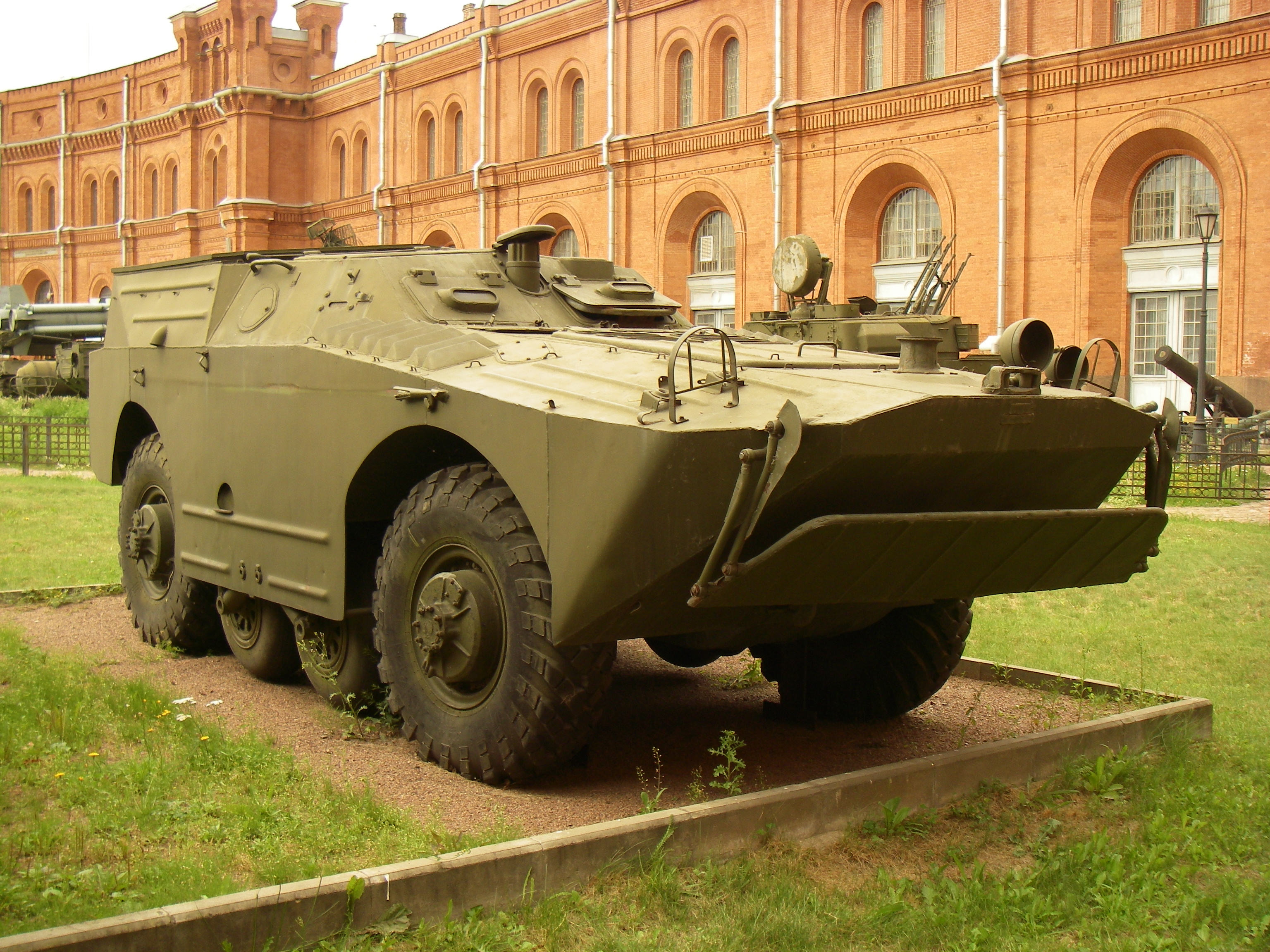 9P110 vehicle with 9M14 missiles of 9K14 anti-tank complex «Malyutka» in Saint Petersburg Artillery museum